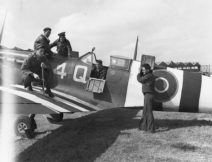 A British Supermarine Spitfire fighter receives maintenance from mechanics of U.S. Navy Cruiser Scouting Squadron Seven (VCS-7), which used these planes to spot Naval gunfire during the June 1944 Normandy invasion. Men present are (from left to right): James J. O'Connor; C.N. Pfanenstiel; Chief Aviation Machinist's Mate V.G. Disa; Aviation Machinist's Mate Third Class R.P. Theirauld; and Edmund Pachgio. VCS-7 switched from their usual Curtiss SOC Seagull floatplanes to British Supermarine Spitfire fighters - given the paper designation "FS-1" by the U.S. Navy - during the Normandy operation. VCS-7 was based at Royal Naval Air Station Lee-on-Solent, Hampshire (UK), and drew planes from a pool of Supermarine Spitfire of Seafire fighters. The squadron flew a total of 191 sorties between 6 and 25 June 1944, losing one aircraft to ground fire. The "kill" marking below the cockpit was applied by a previous user.